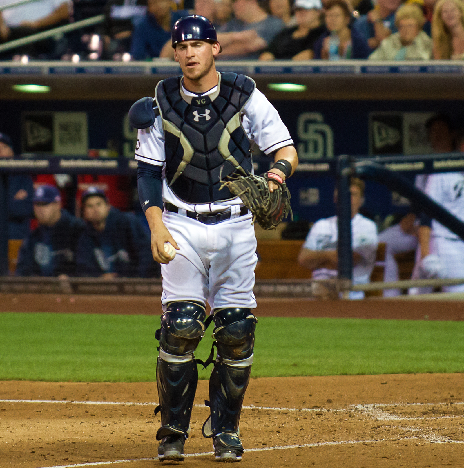 Yasmani Grandal major league baseball player for the San Diego Padres Sept. 11 2012 at Petco Park in San Diego California